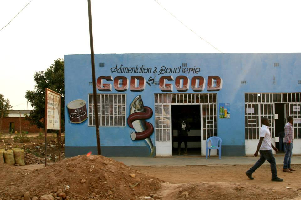 Religious Store Signs